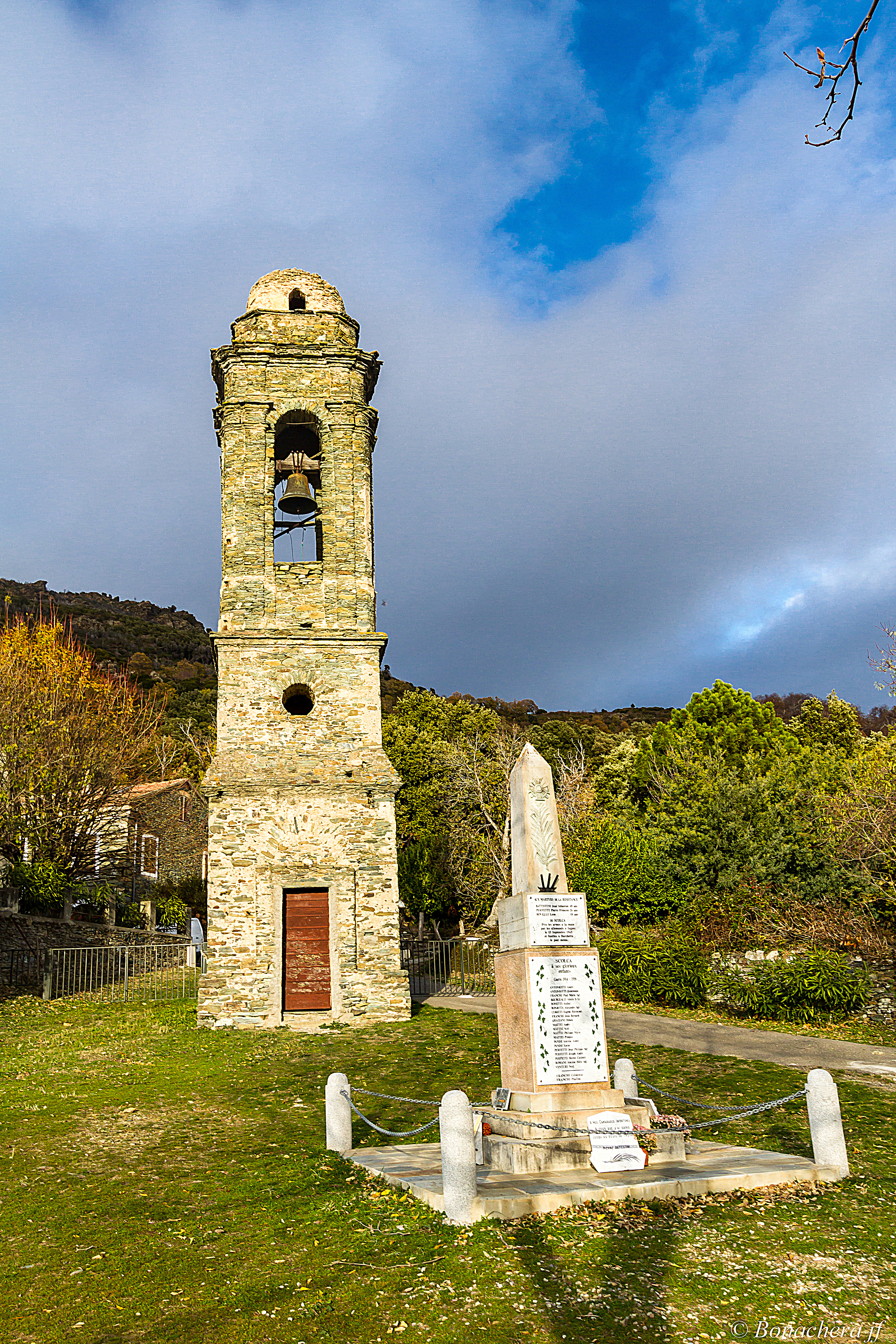 Scolca: le clocher de l'église San Mamilianu